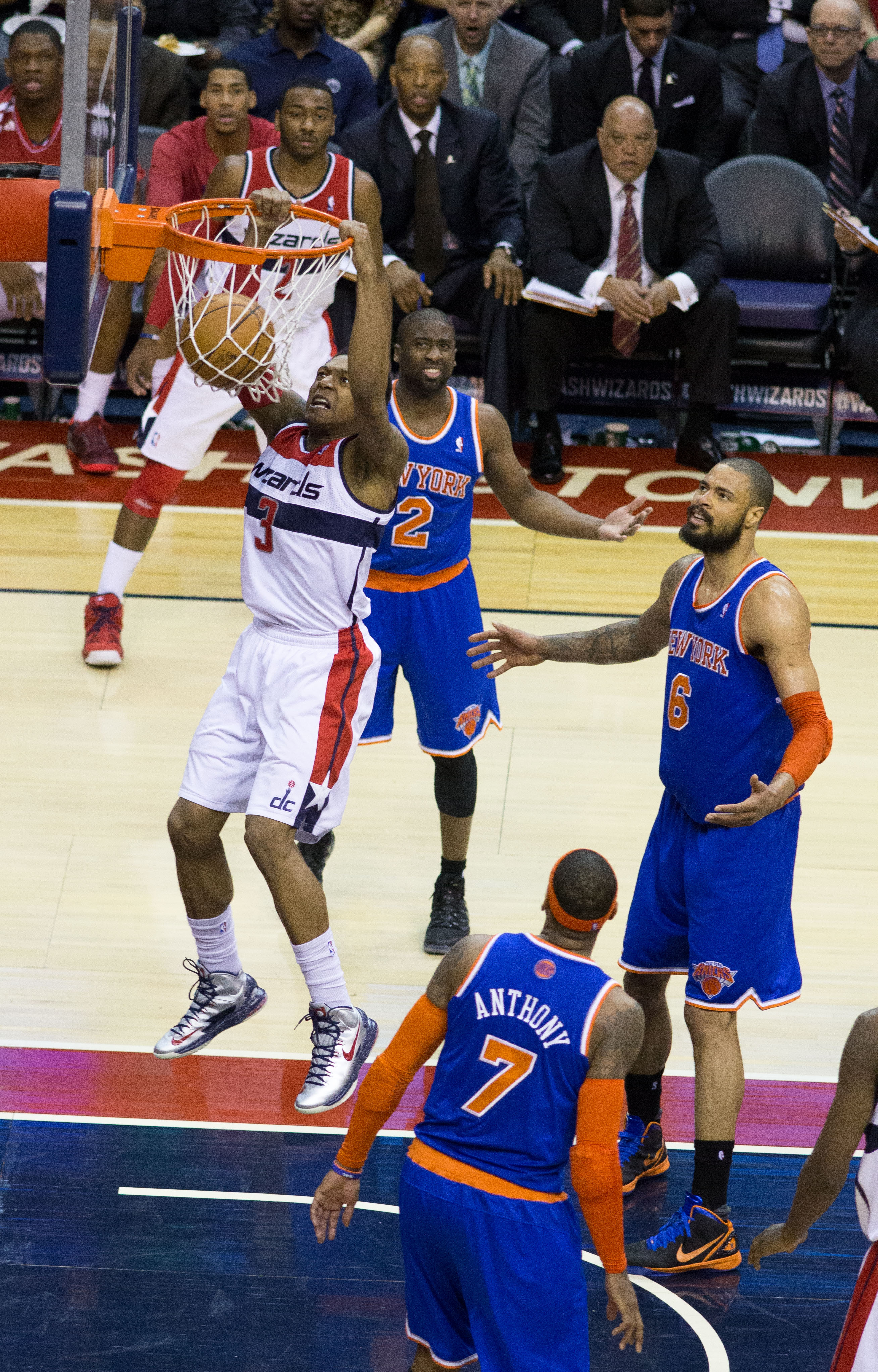 New York Knicks at Washington Wizards March 1, 2013